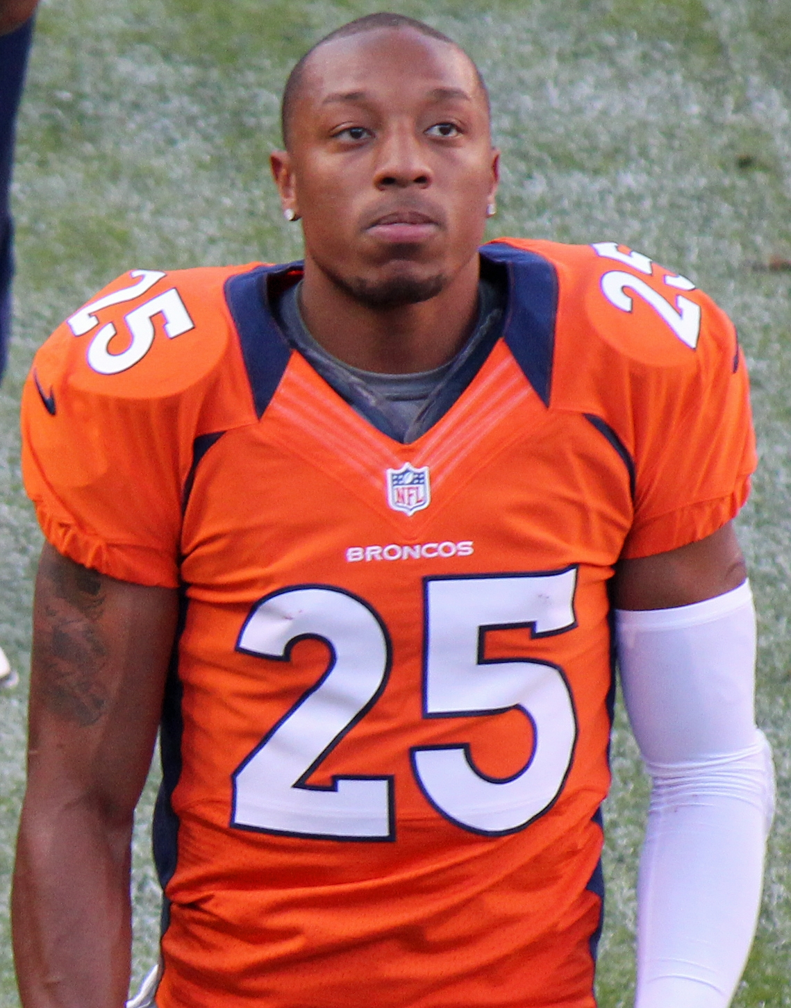 Chris Harris, Jr., a player on the National Football League.